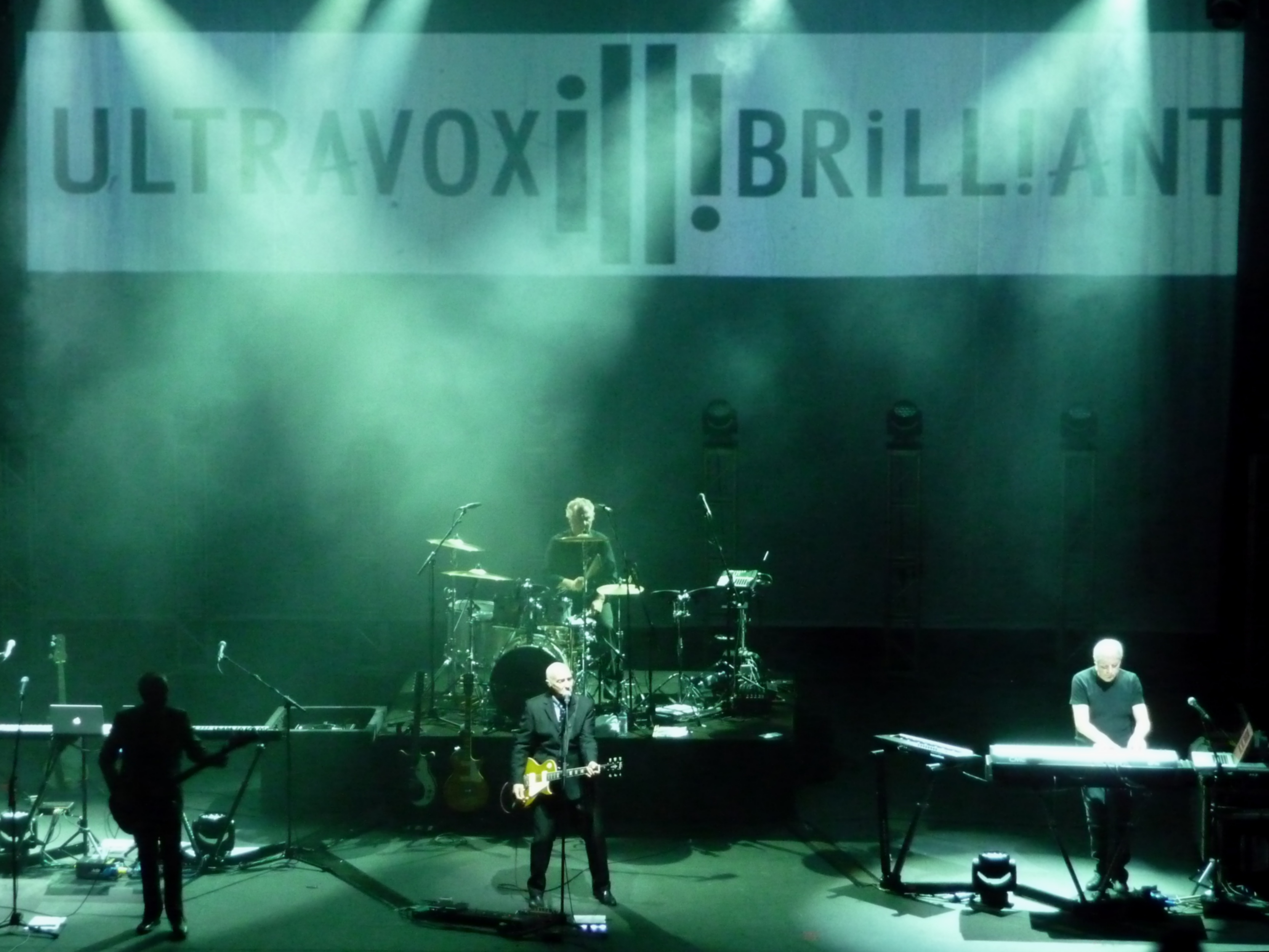 Ultravox playing "Brilliant" tour concert at Hammersmith Apollo, London